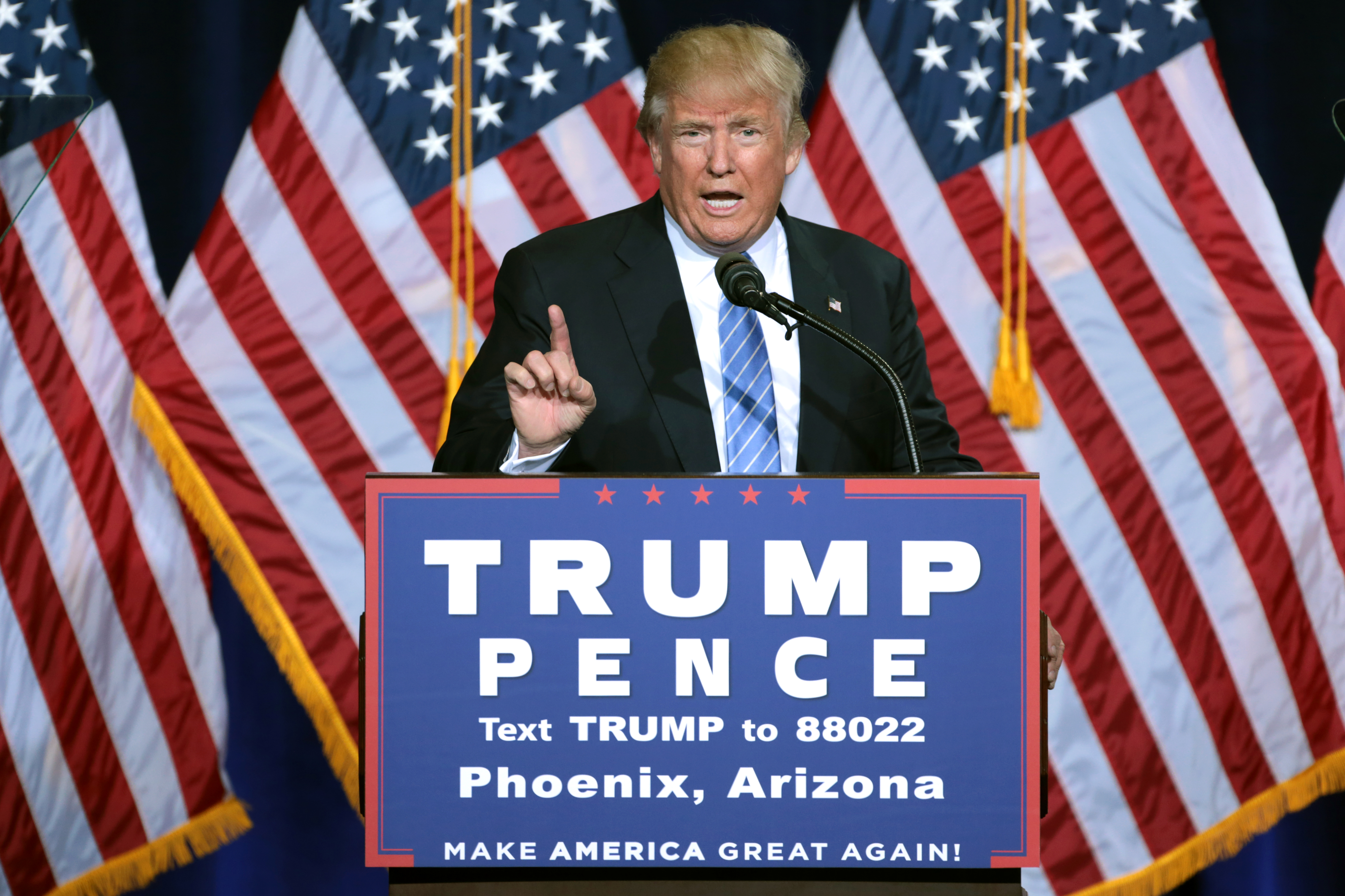 Donald Trump speaking to supporters at an immigration policy speech at the Phoenix Convention Center in Phoenix, Arizona.